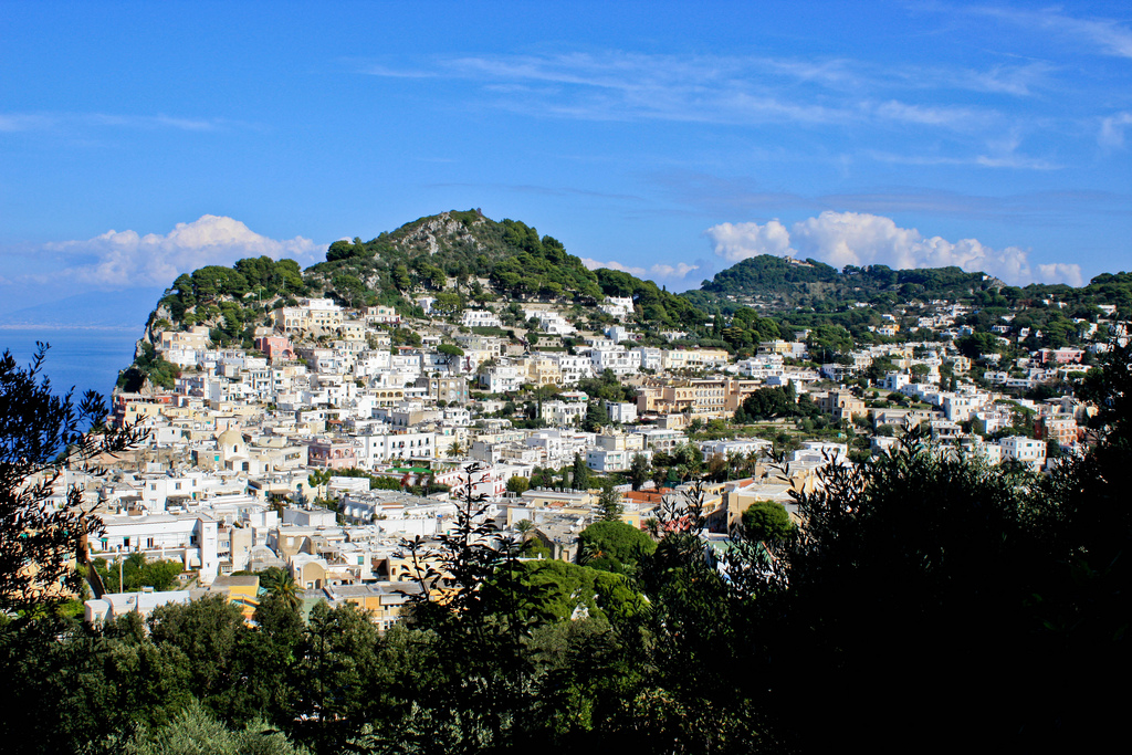 Capri town on Capri Island